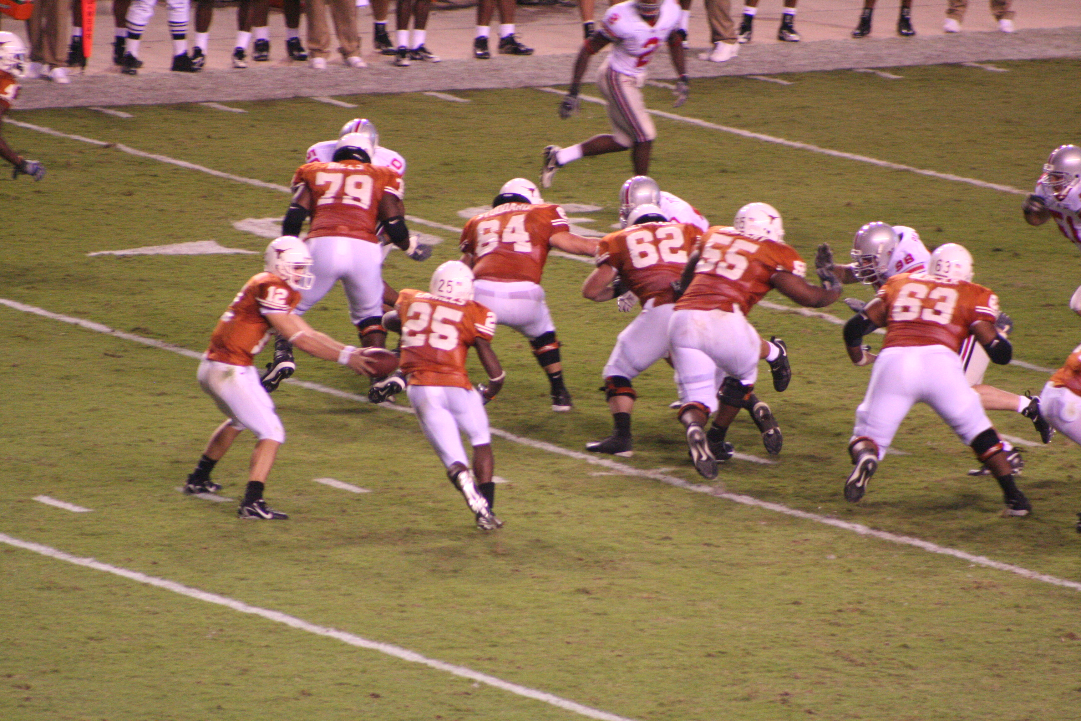 College football game betwen University of Texas at Austin and Ohio State University - UT quarterback Colt McCoy hands off to Jamaal Charles